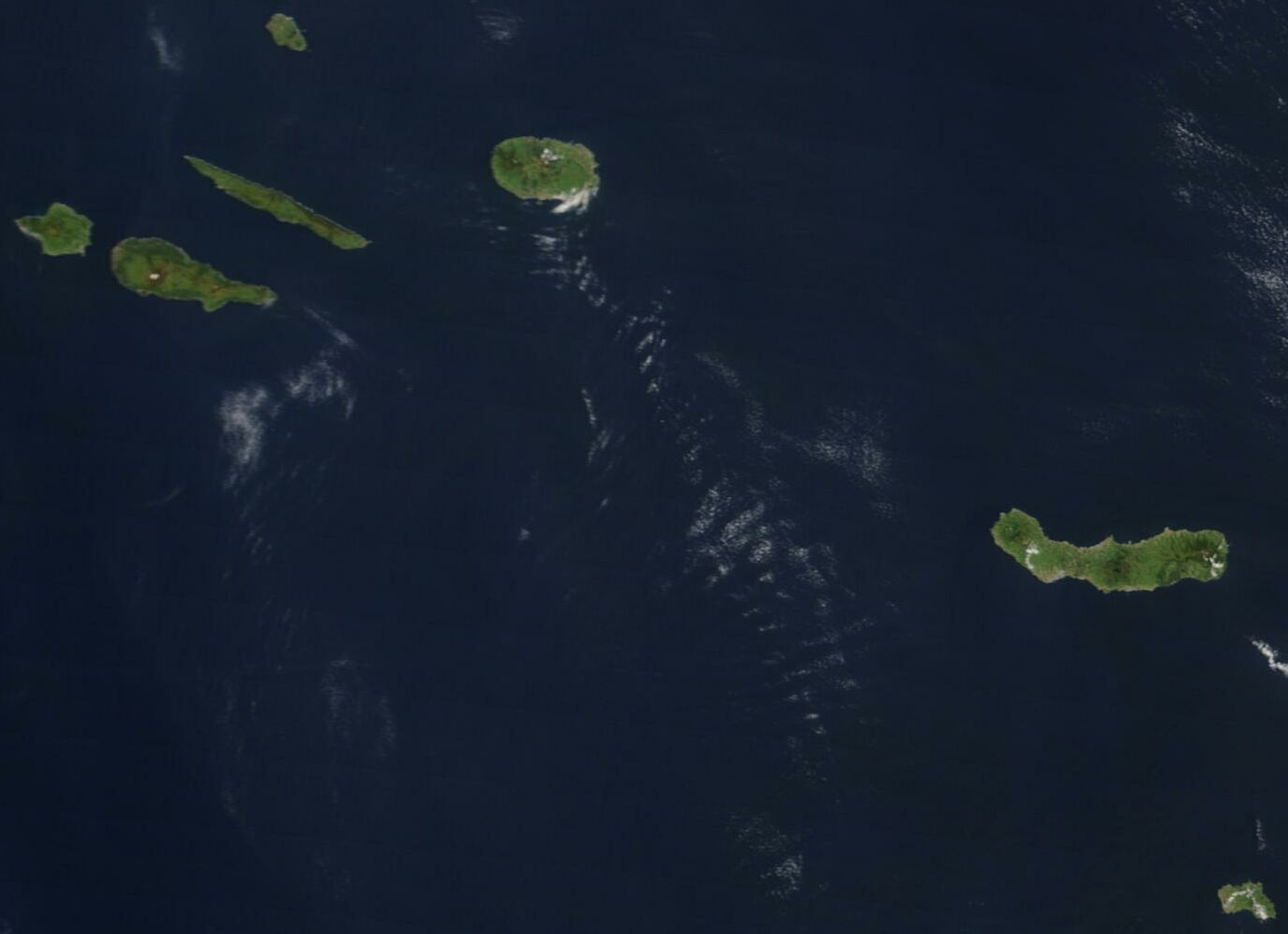 Satellite image of The Azores in May 2003 missing Flores and Corvo in the west. Hundreds of miles off the coast of Portugal, the nine islands of the Azores chains are stretched out over the Atlantic Ocean. This Moderate Resolution Imaging Spectroradiometer (MODIS) image from the Terra satellite on May 1, 2003, shows seven of the nine islands: (from left to right) Faial, Pico, São Jorge, Graciosa (north), Terceira, São Miguel, and Santa Maria.